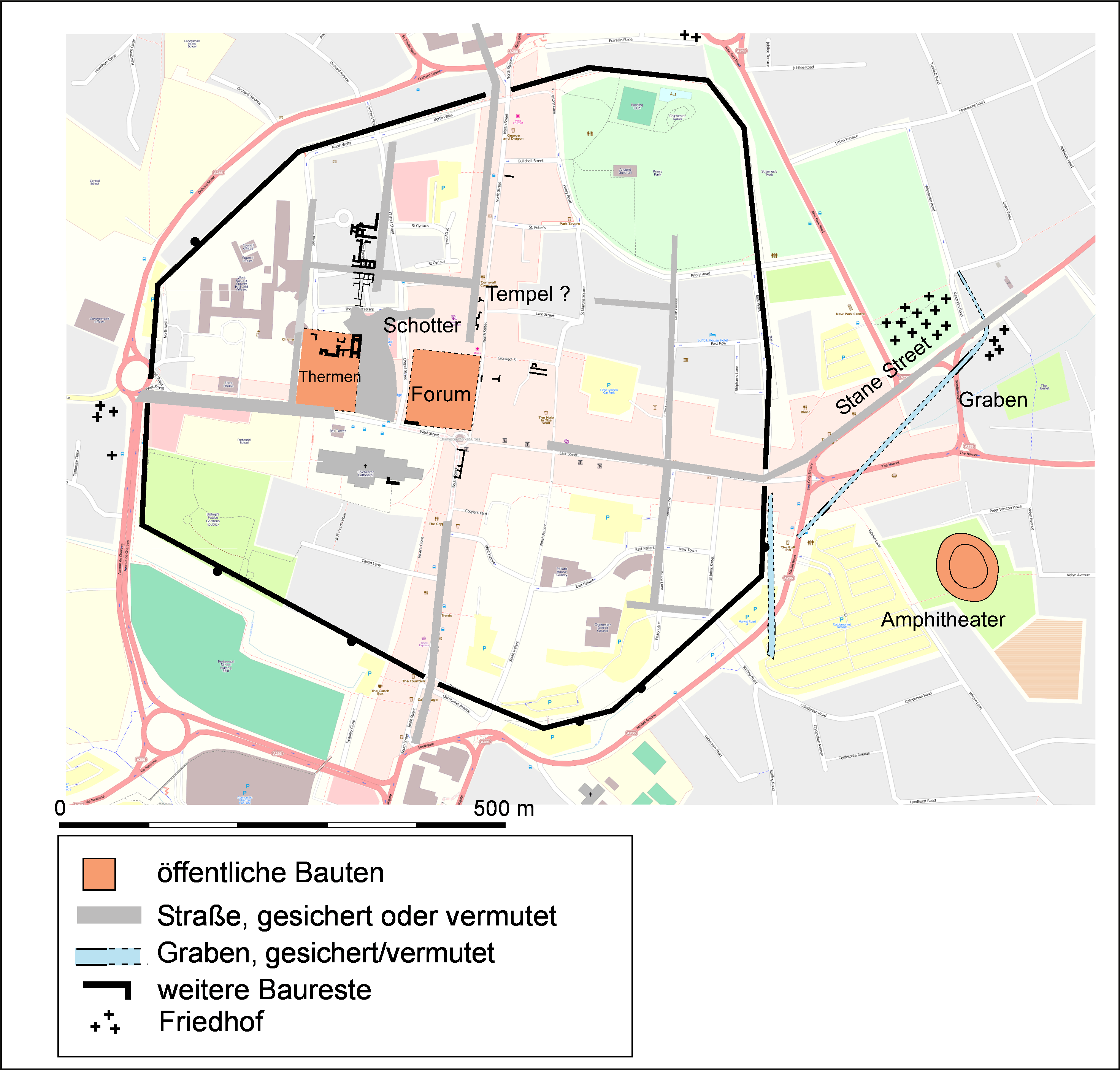 Plan of Roman remains on the map of modern Chichester